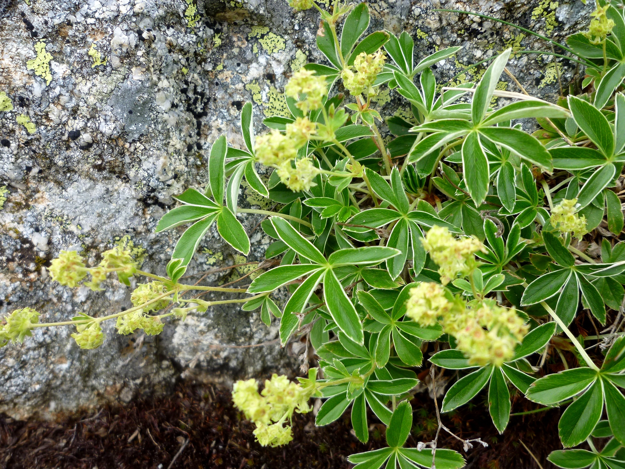 Alchemilla alpina. In Cabdella (Pallars Jussà - Catalunya. To 2.130 m altitude